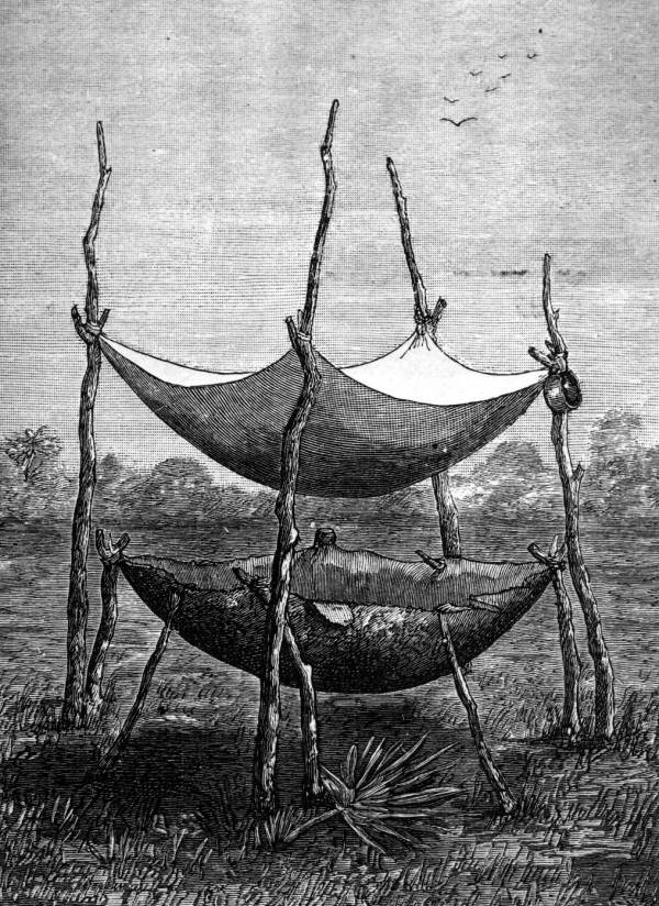 Engraving of a strainer used by the Florida Seminoles to prepare coontie arrowroot flour, from Clayton MacCauley's 1887 report, "The Seminole Indians of Florida".